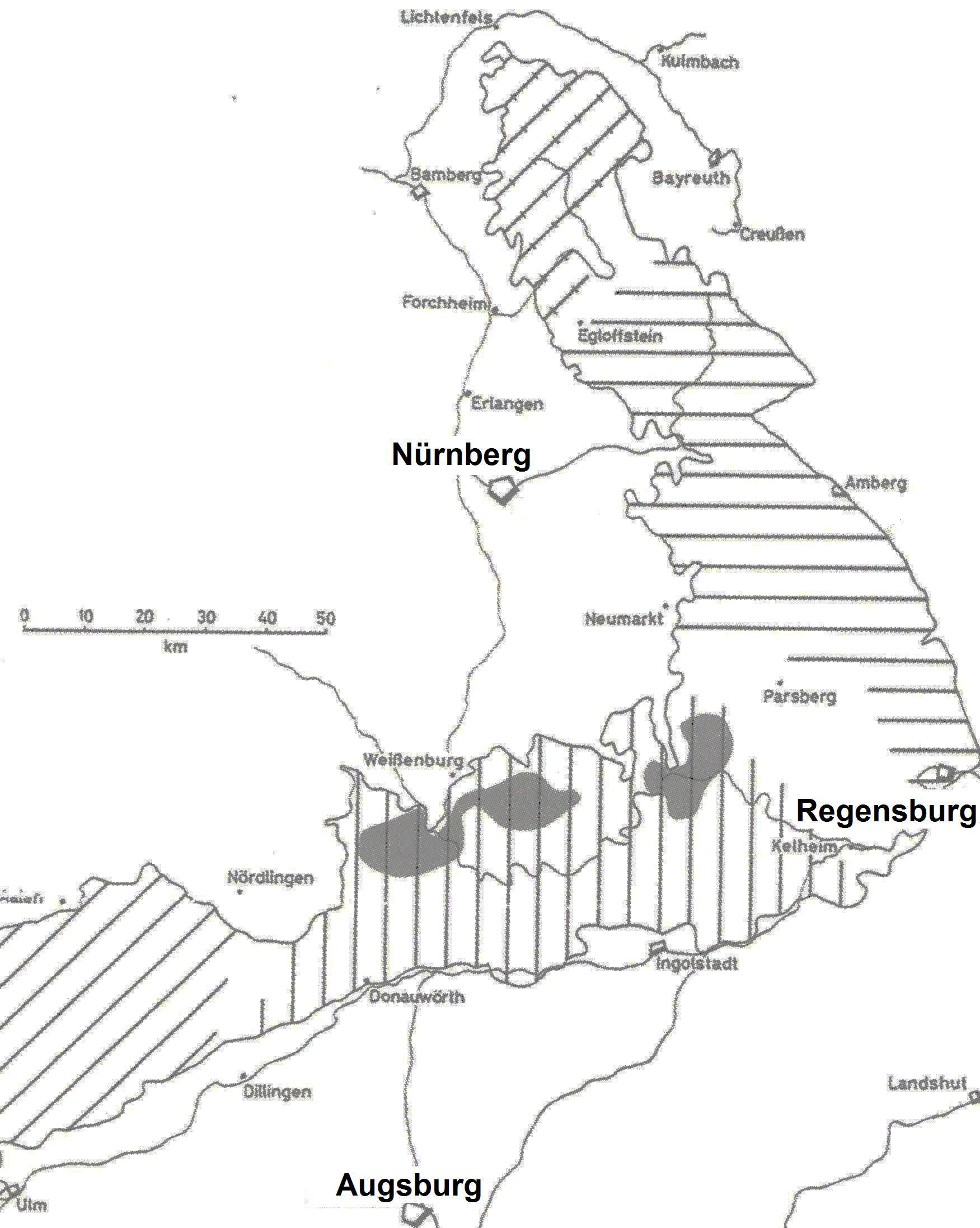 Geography occurrence of Jurassic limestone (dark gray area). Franconian Alb